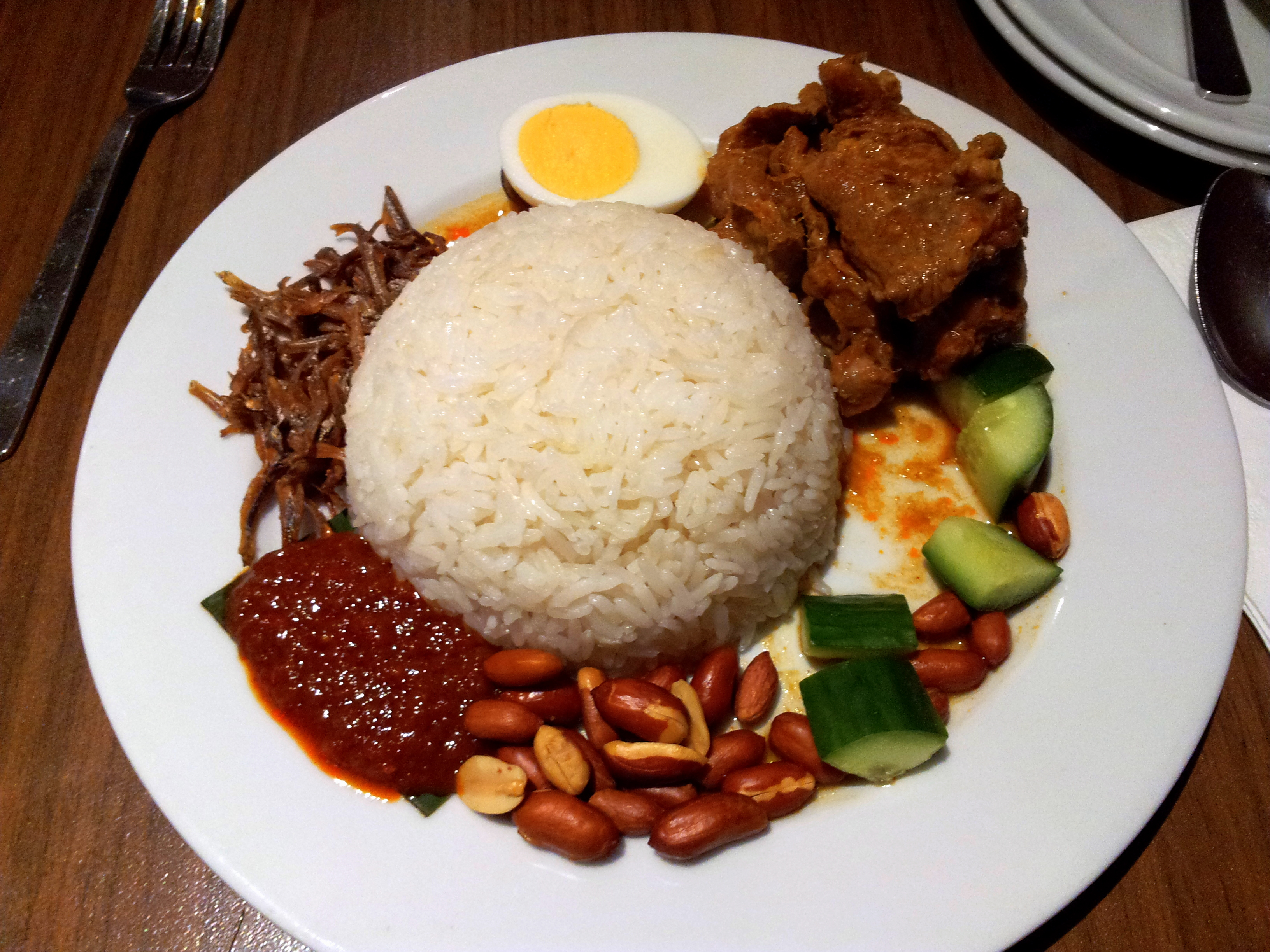 Nasi Lemak sold with Lamb Curry at Mamak in Sydney, Australia